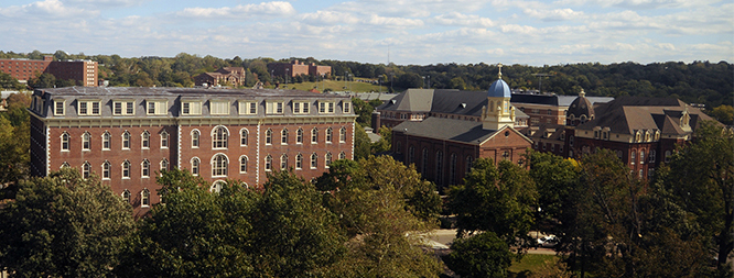 University of Dayton campus. St. Mary's Hall in foreground, Immaculate Conception Chapel in center with St. Joseph's Hall behind.